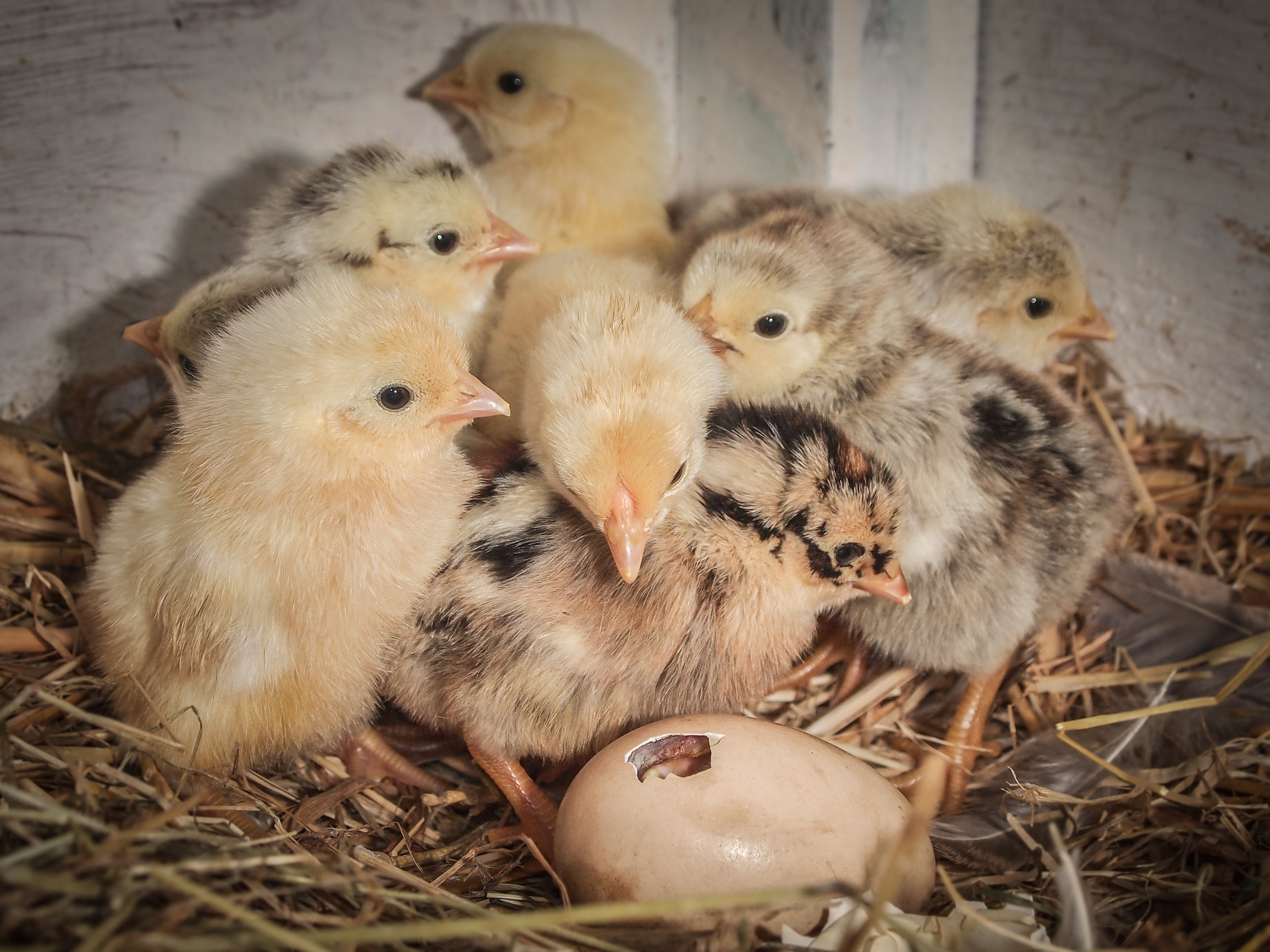 Frisian chickens